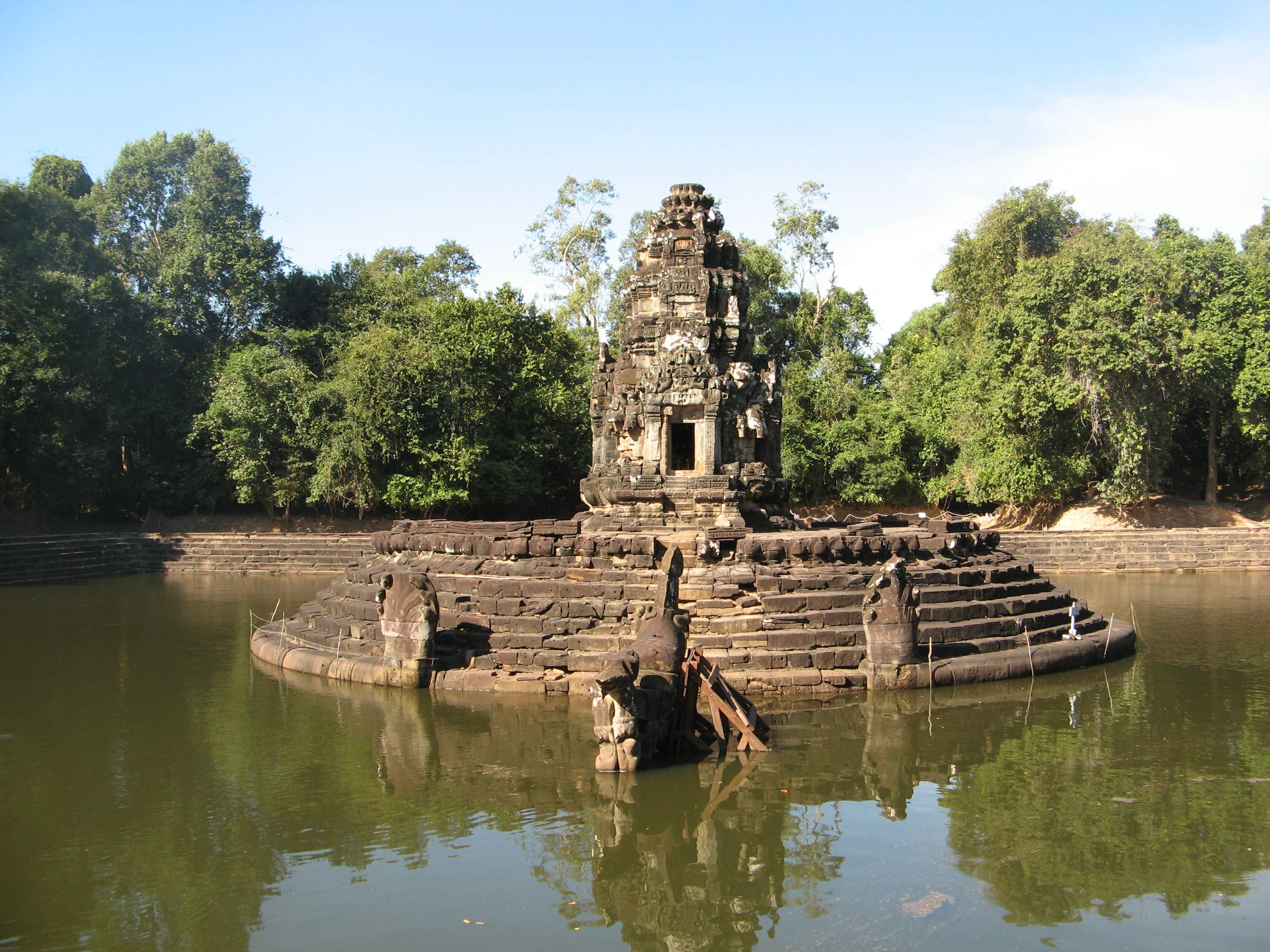 neak pean temple. Angkor, Cambodia.